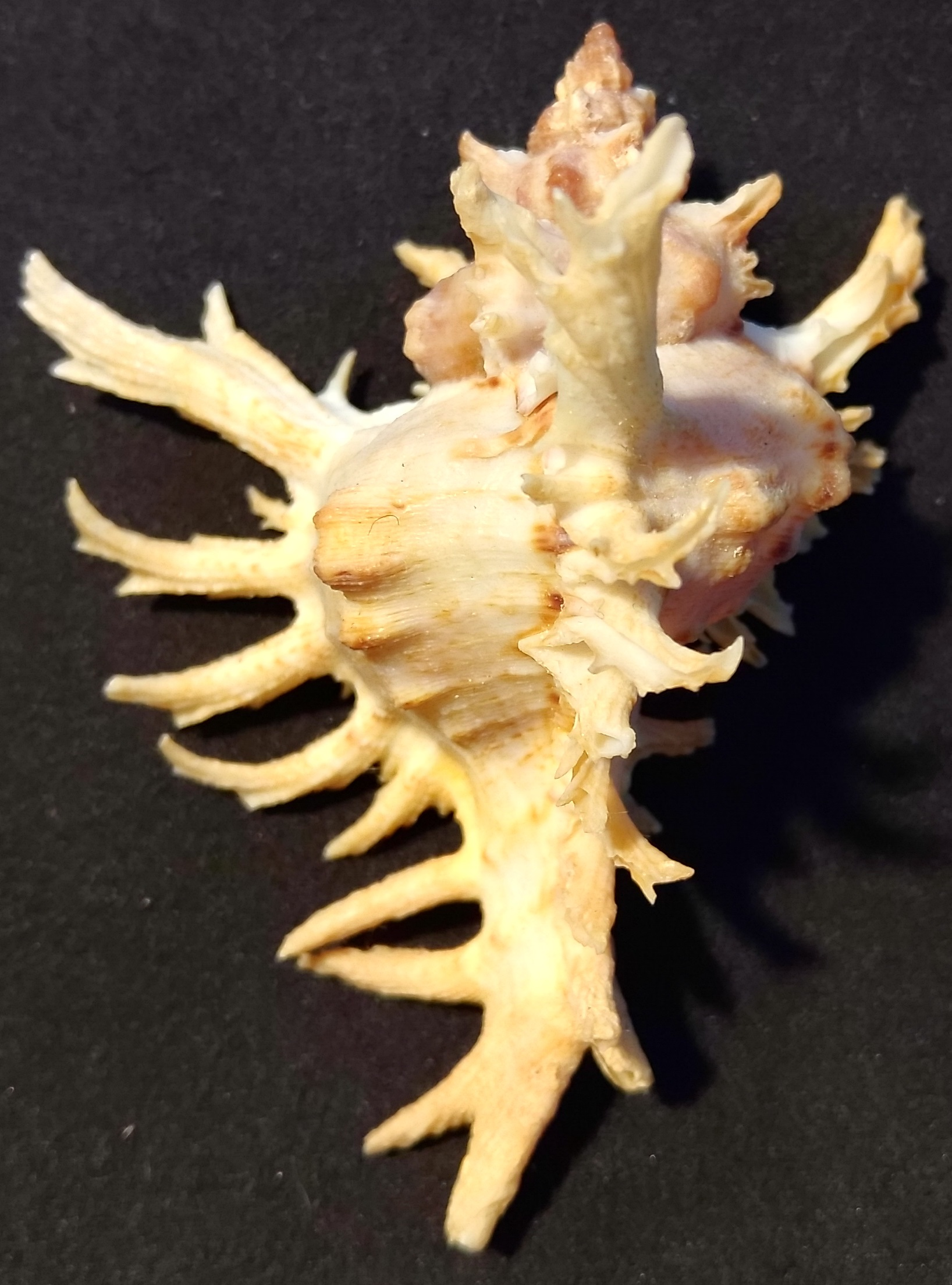 Chicoreus Asianus Back